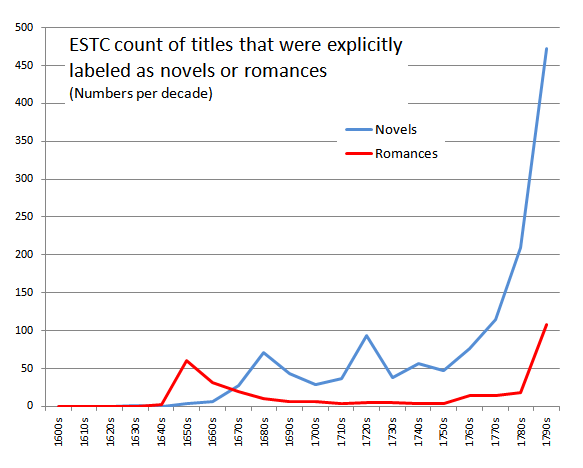 ESTC count of titles (per decade) that were explicitly labelled as "romances" or "novels" 1600-1800